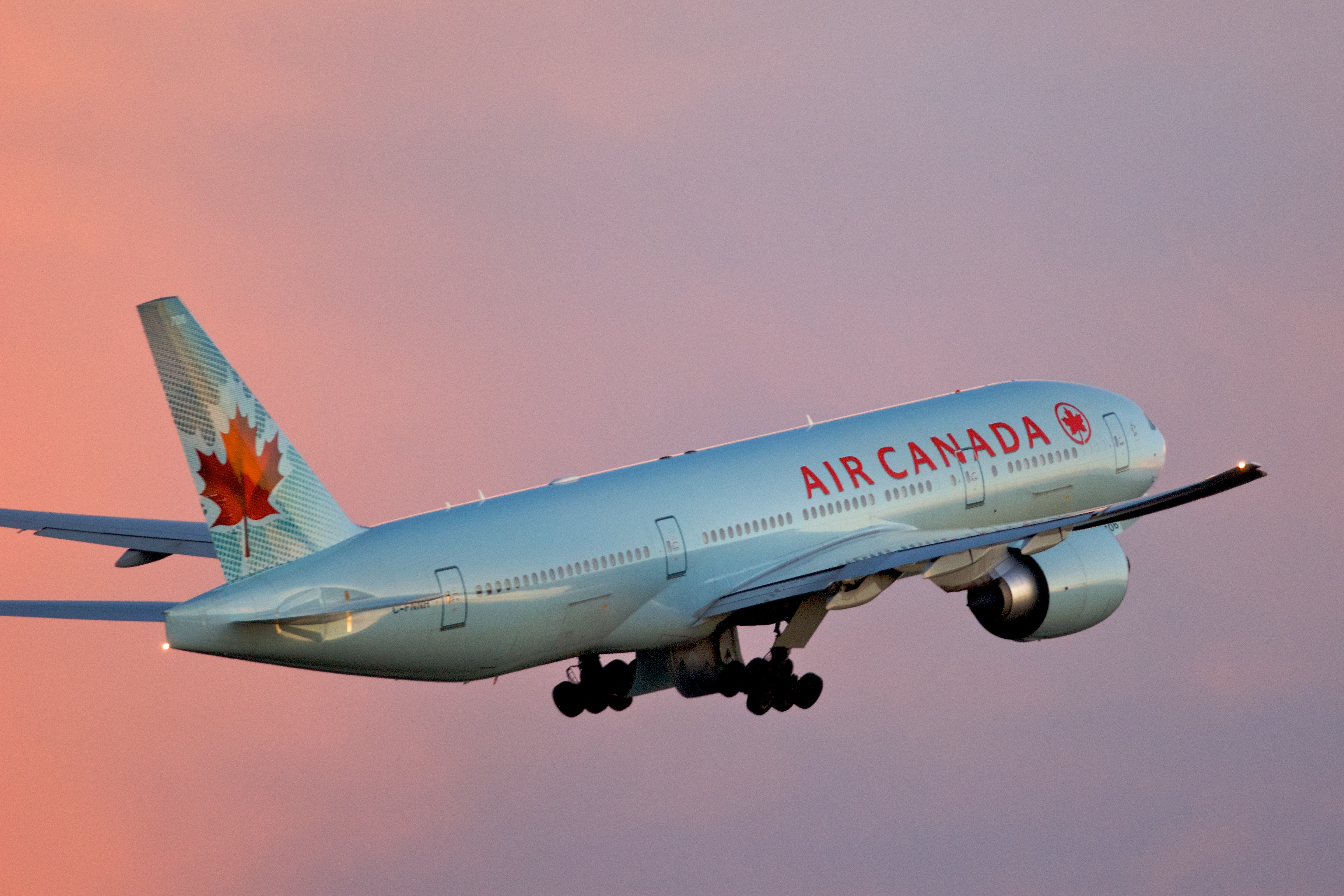 Departing Toronto Pearson